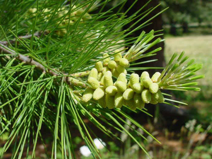 Pinus lambertiana pollen cones shortly before pollination